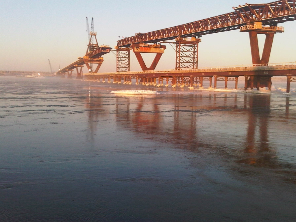 Yellowknife, Northwest Territories - Taken in mid November, 2011.